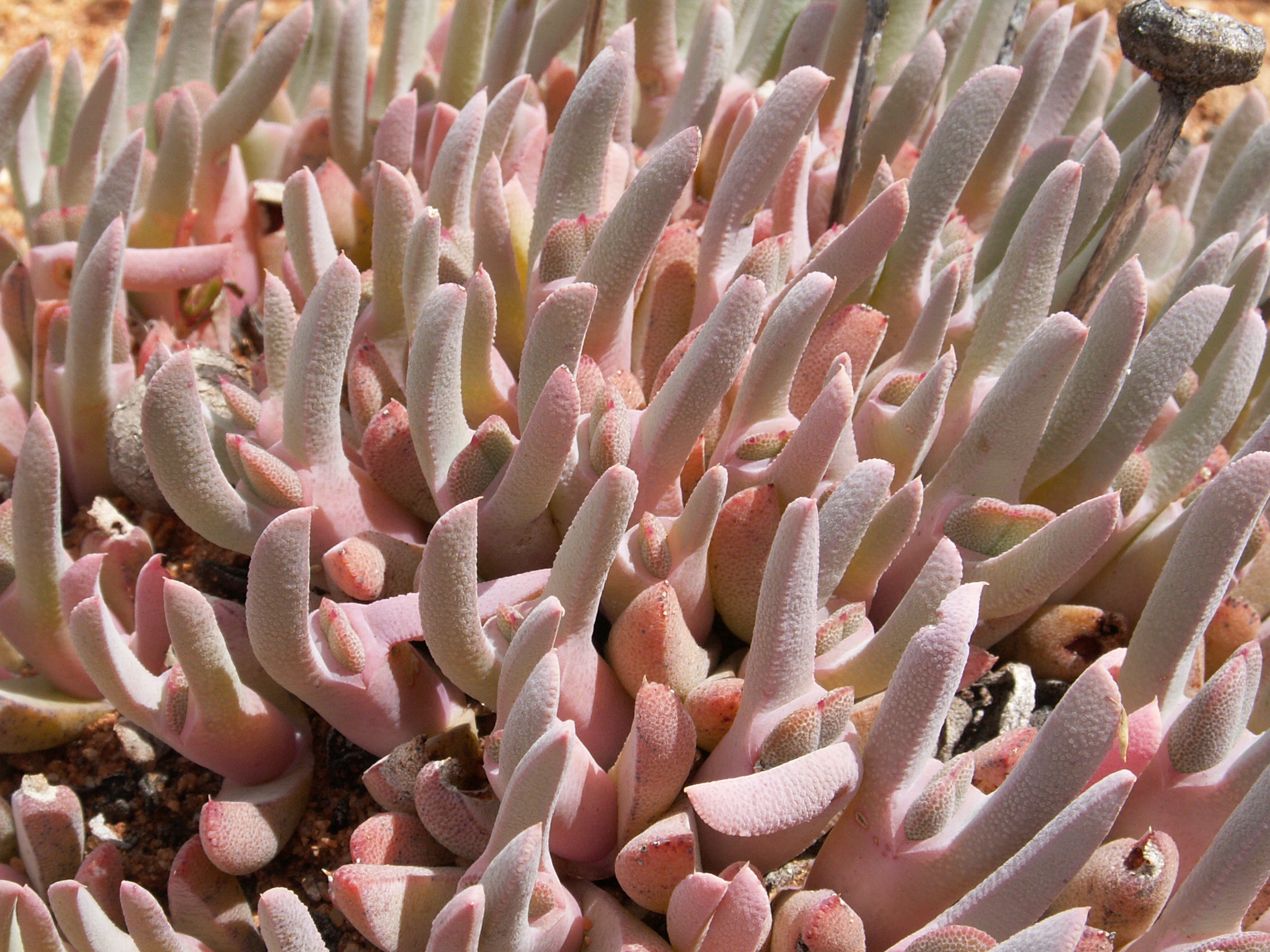 close up, Cheiridopsis denticulata (Haw.) ., Richtersveld National park , Northern Cape, South Africa